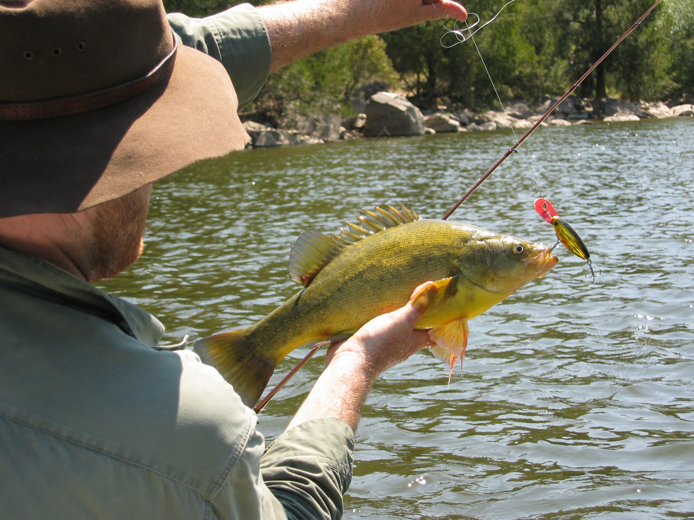 A wild Golden perch (Macquaria ambigua) about to be released. Caught in an upland river on a lure equipped with barbless hooks. Note the much leaner, slimmer shape of wild specimens compared to stocked impoundment specimens, and intense golden colouration. Infestations of individual Lernaea, an introduced parasite, can be seen in the form of red spots at the start of the spiny dorsal fin, and the end of the soft dorsal fin.Codman (talk) 10:16, 11 March 2008 (UTC)